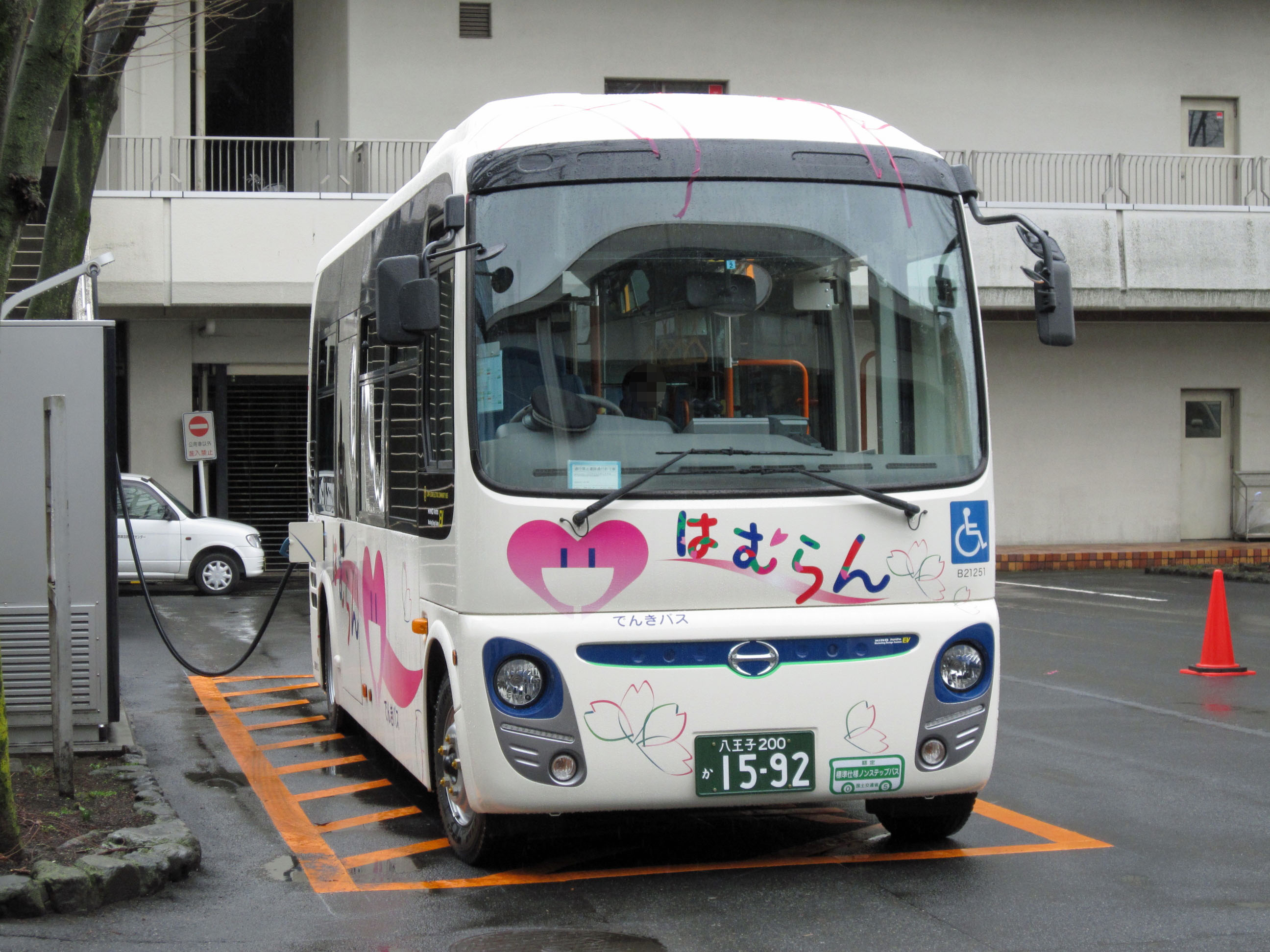 Hamura City Community Bus "Hamuran" Electric Bus (named after "Hamura" and "run") on charging 充電中の羽村市コミュニティバス「はむらん」電気バス（「羽村」+「run（走る）」）